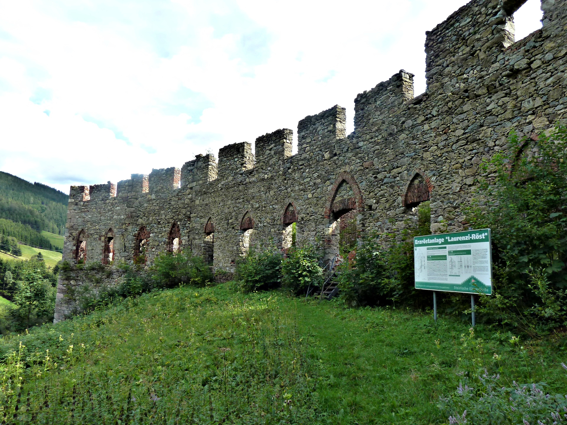 Historical ore roasting plant "Laurenziröst"